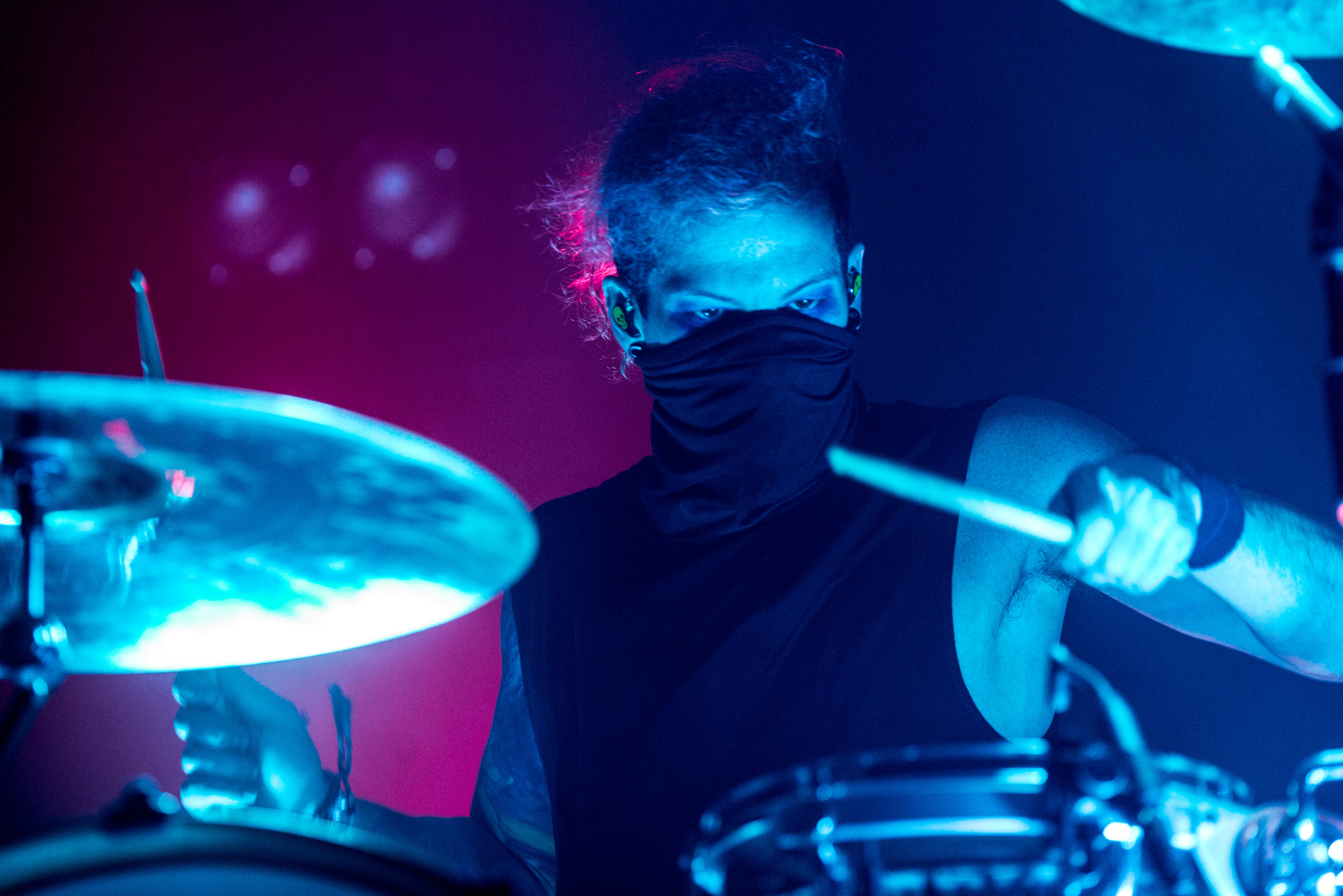 Twenty One Pilots Live @ Munich 2016